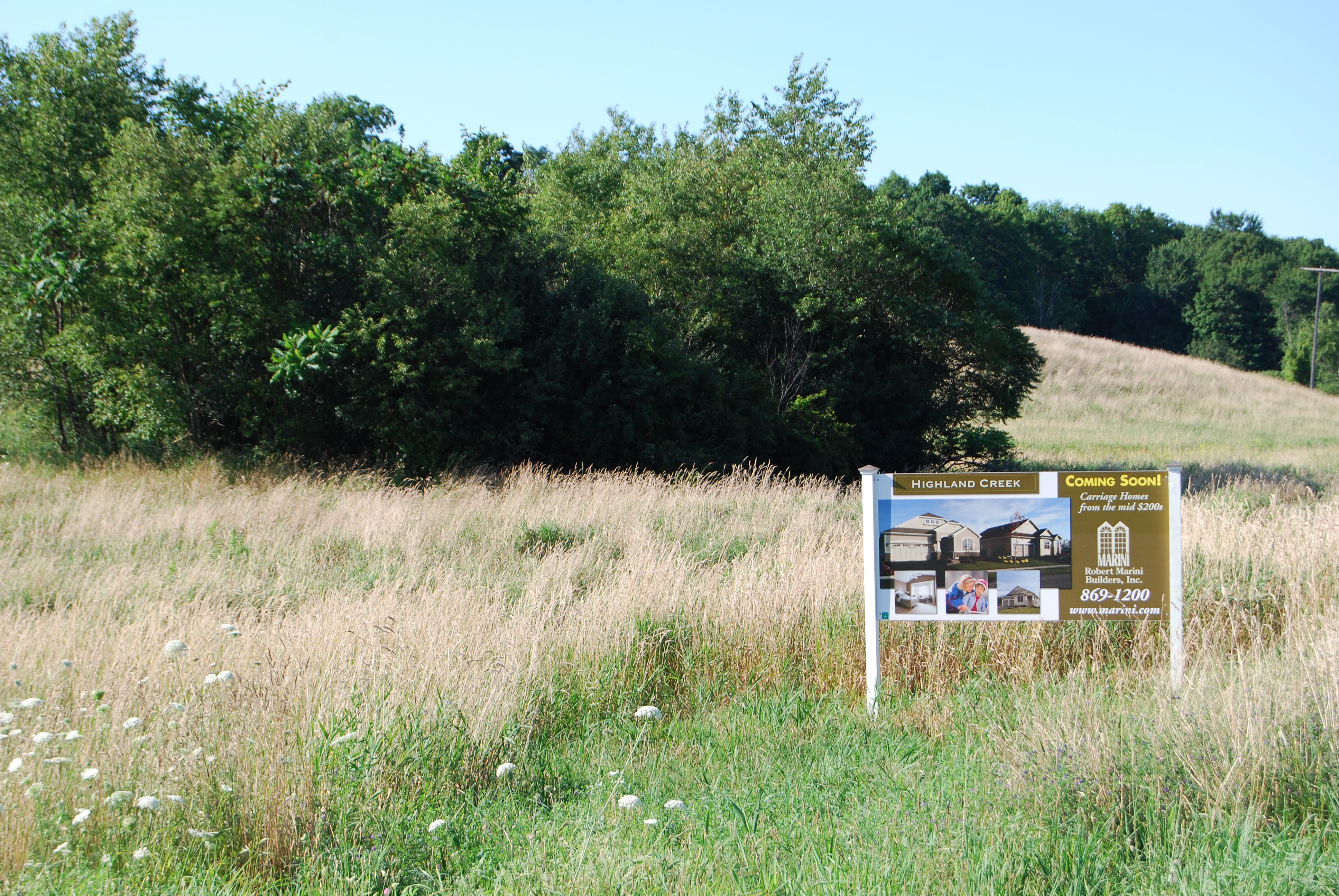 Sign indicating a proposed development on McChensey Avenue Extension in Brunswick, New York, United States. This, along with other development in the town, has led to opposition by locals.